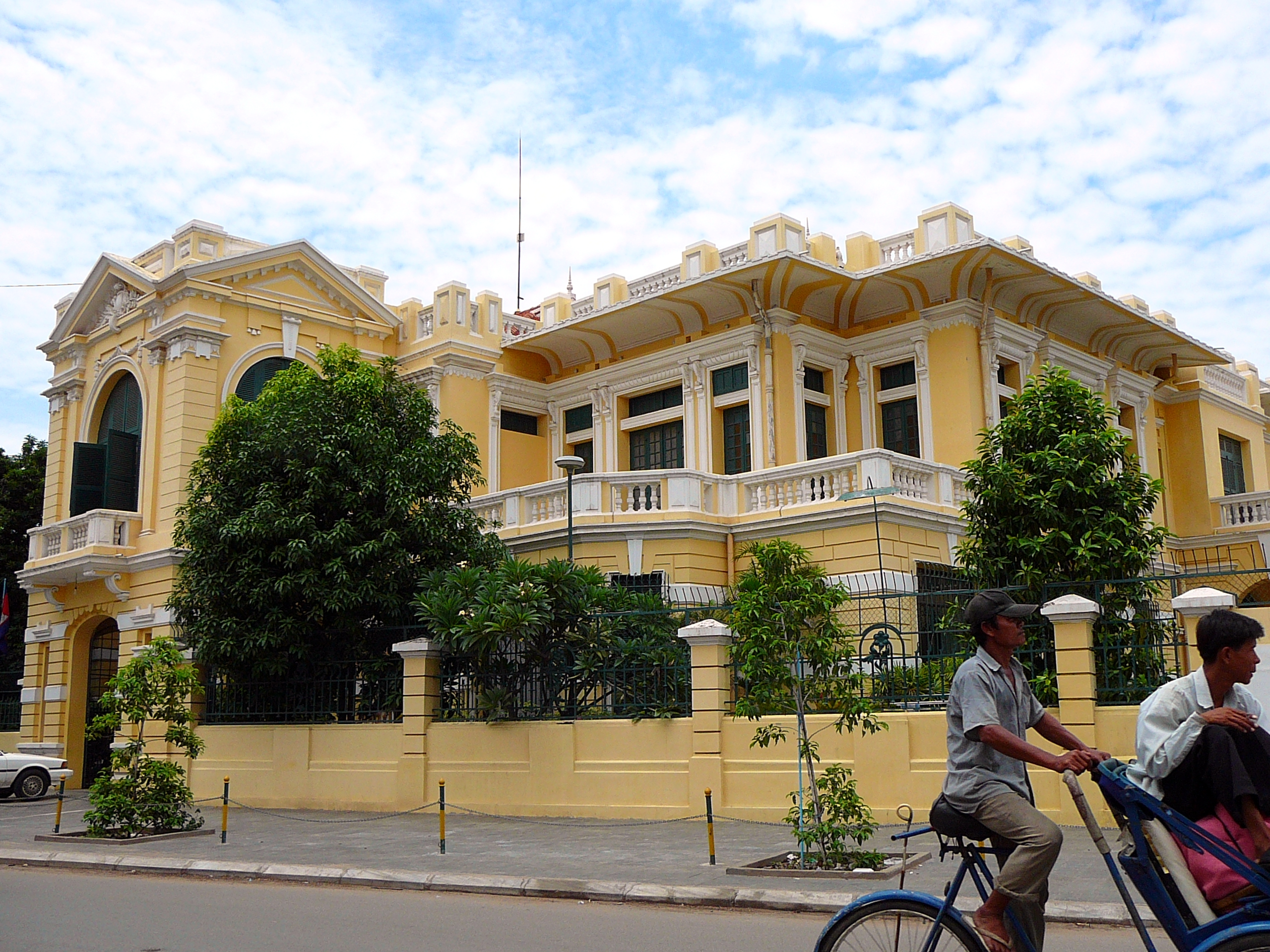 Image: Colonial Villa in Phnom Penh Source: own work Date: 13 September 2006 author: anjacl